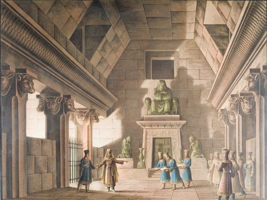 Gioachino Rossini - Semiramide - Alessandro Sanquirico - Milan 1824 - act 2, scene 4 - Interno del santuario 2